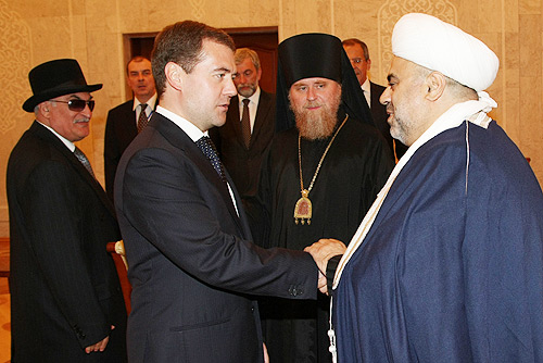 BAKU. With leaders of the Azerbaijani religious community. On the right: Orthodox Bishop Alexander, leader of Azerbaijani Muslims Sheikh-ul-Islam Haji Allahushukjur Pashazade. On the left, Rabbi Semyon Ikhilov.